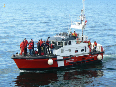 Hamilton and Scourge 15 May 08 During the War of 1812, two U.S. Navy schooners, the Hamilton and Scourge, sank in Lake Ontario off the coast of St. Catharines with more than 50 U.S. Navy sailors and service personnel aboard. The vessels were discovered in the late 1970s and ownership of the vessels was transferred from the U.S. Navy to the Royal Ontario Museum and later to the City of Hamilton as part of the Hamilton and Scourge National Historic Site. In partnership with many entities, the city sent down Remote Operating Vehicles to assess the condition of the underwater site. To conclude the week of inspection, U.S. Consul General John R. Nay spoke at a memorial service held aboard the CCGS Griffon to commemorate the lost crew.